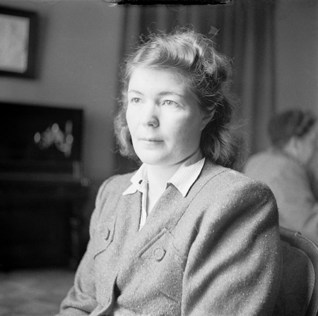 Aale Tynni depicted at the time of her winning the Olympic games.